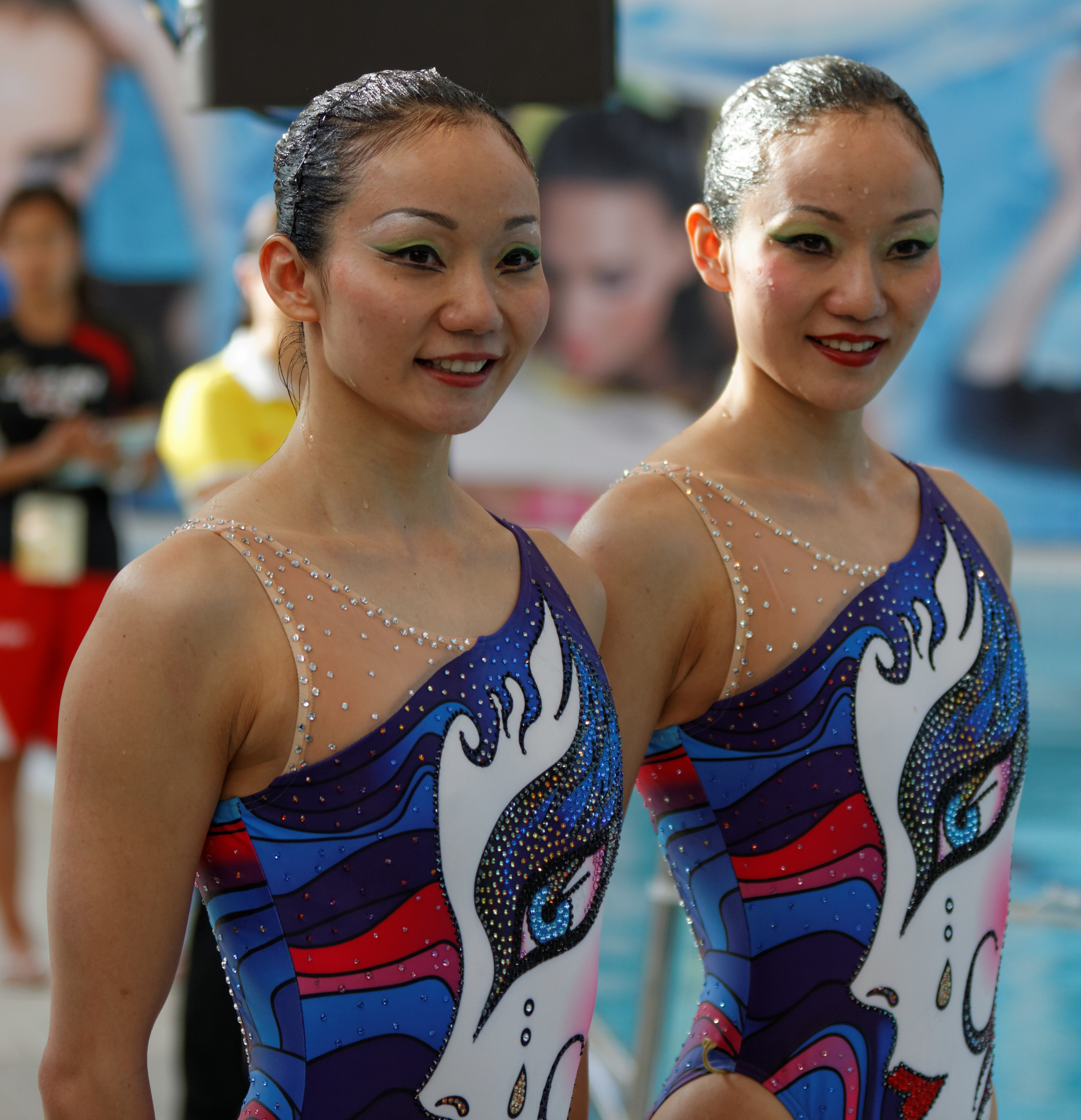 Jiang Tingting - Jiang Wenwen, duet free routine (preliminary), Open Make Up For Ever.